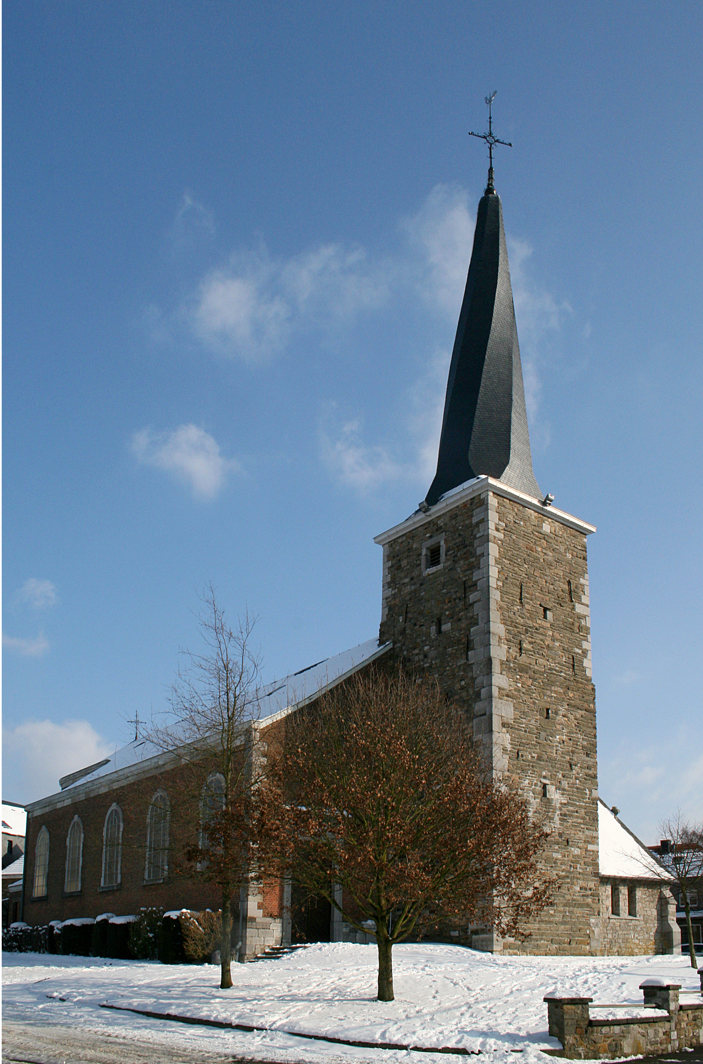 Jalhay (Belgium), the Saint Michael's church and its twisted church tower (1840).